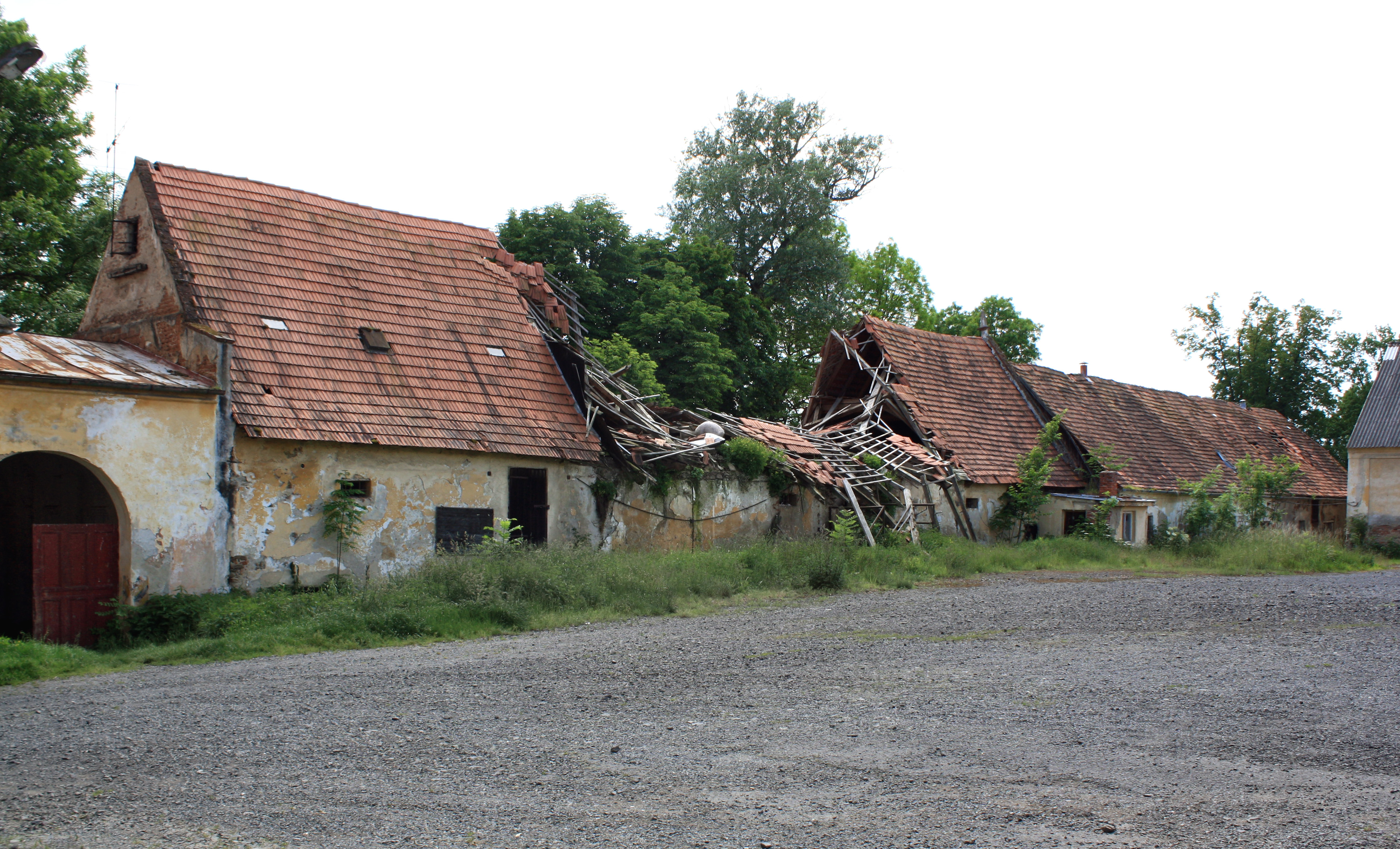 Castle in Nový Čestín, part of Mochtín, Czech Republic